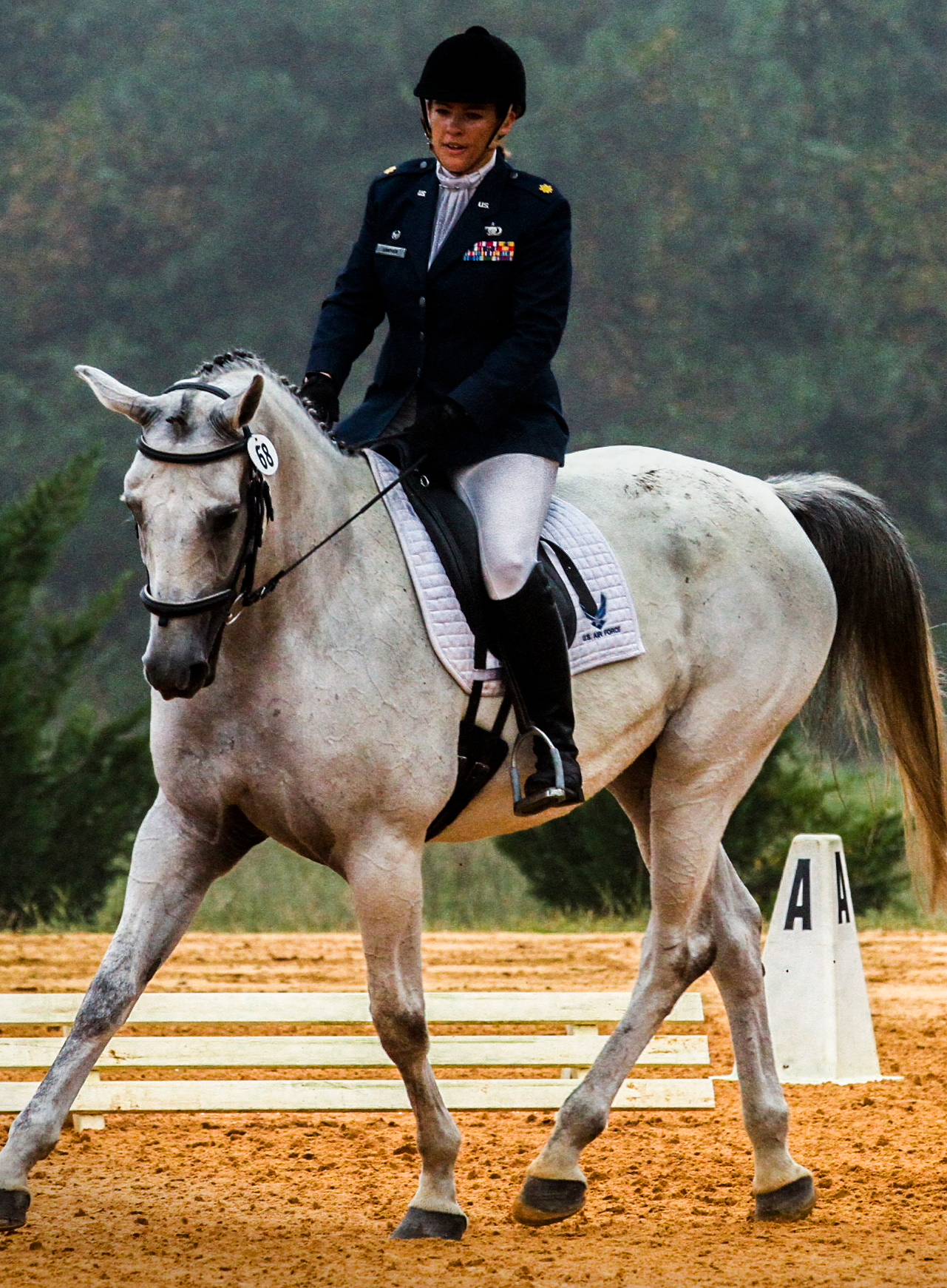 Maj. Laurie Lanpher, 628th Comptroller Squadron commander, competes with her 9-year-old Trakehner horse, Anniko, during the dressage portion of a three-day eventing competition.